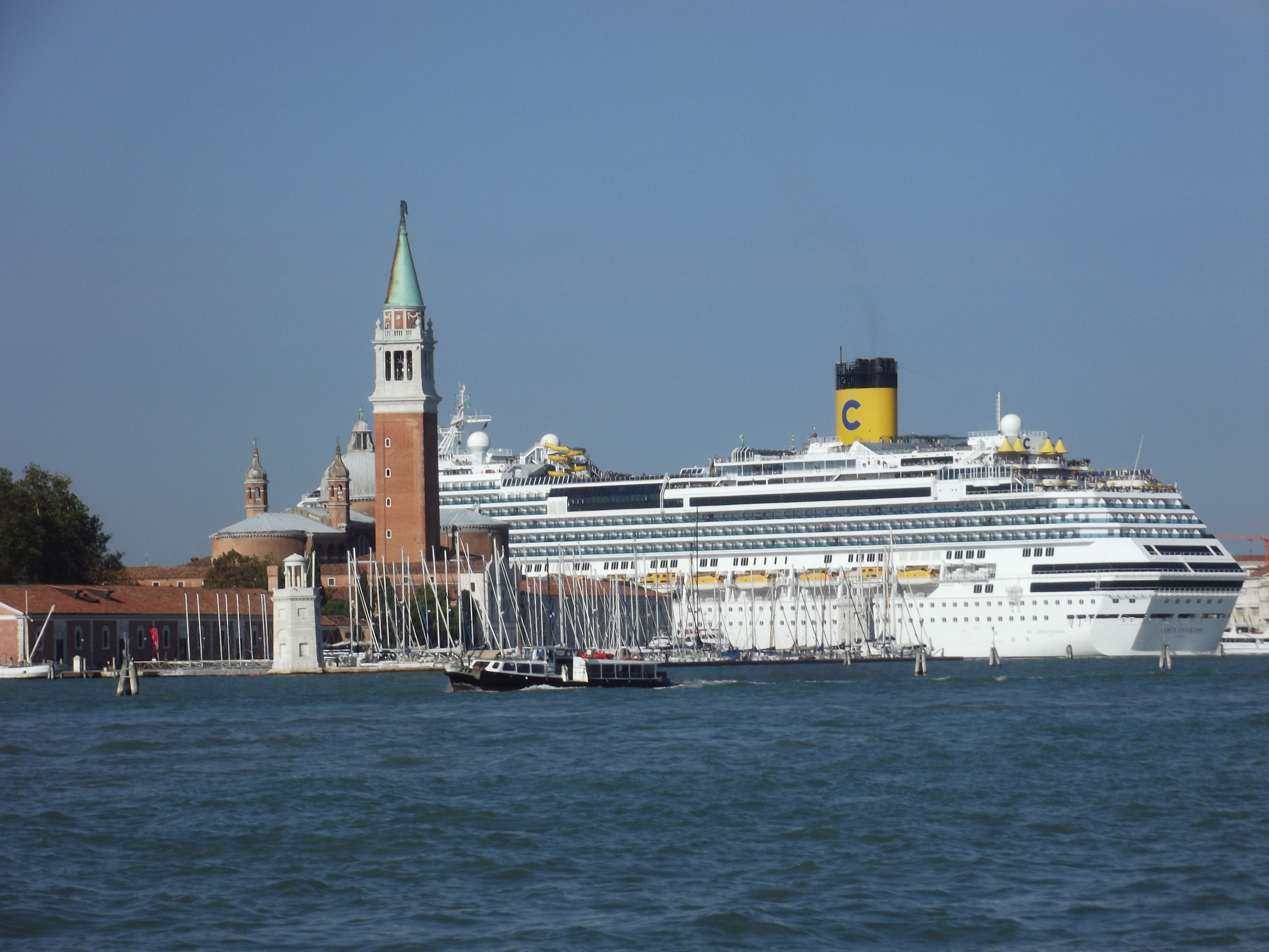 A cruise ship entering Venice, Italy